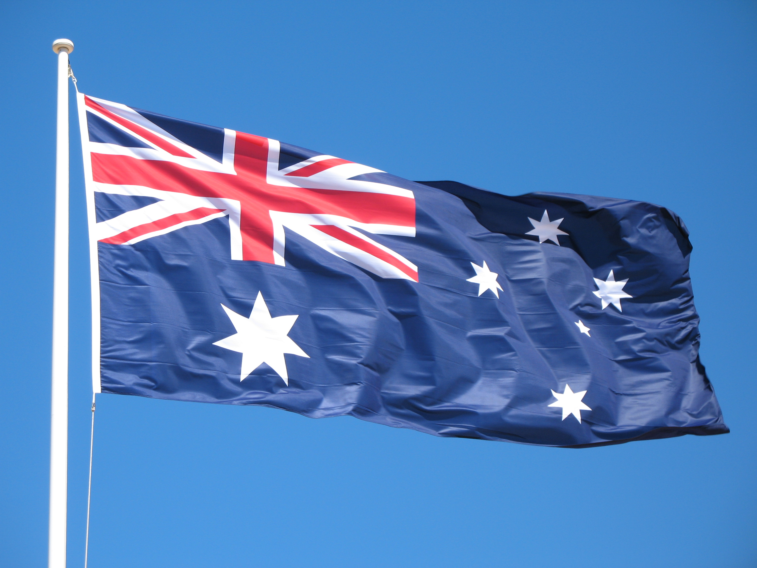 The Australian flag flying over the beach at Newport, New South Wales.